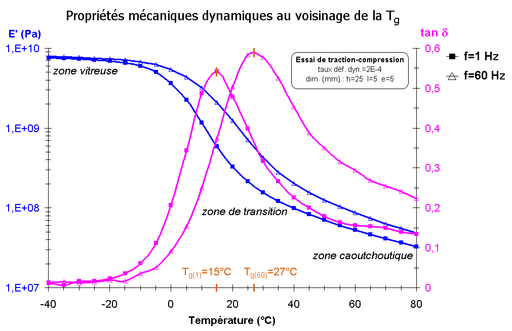 DMA (Dynamic mechanical analysis) results from a vulcanized rubber-based material (based on several polybutadienes).